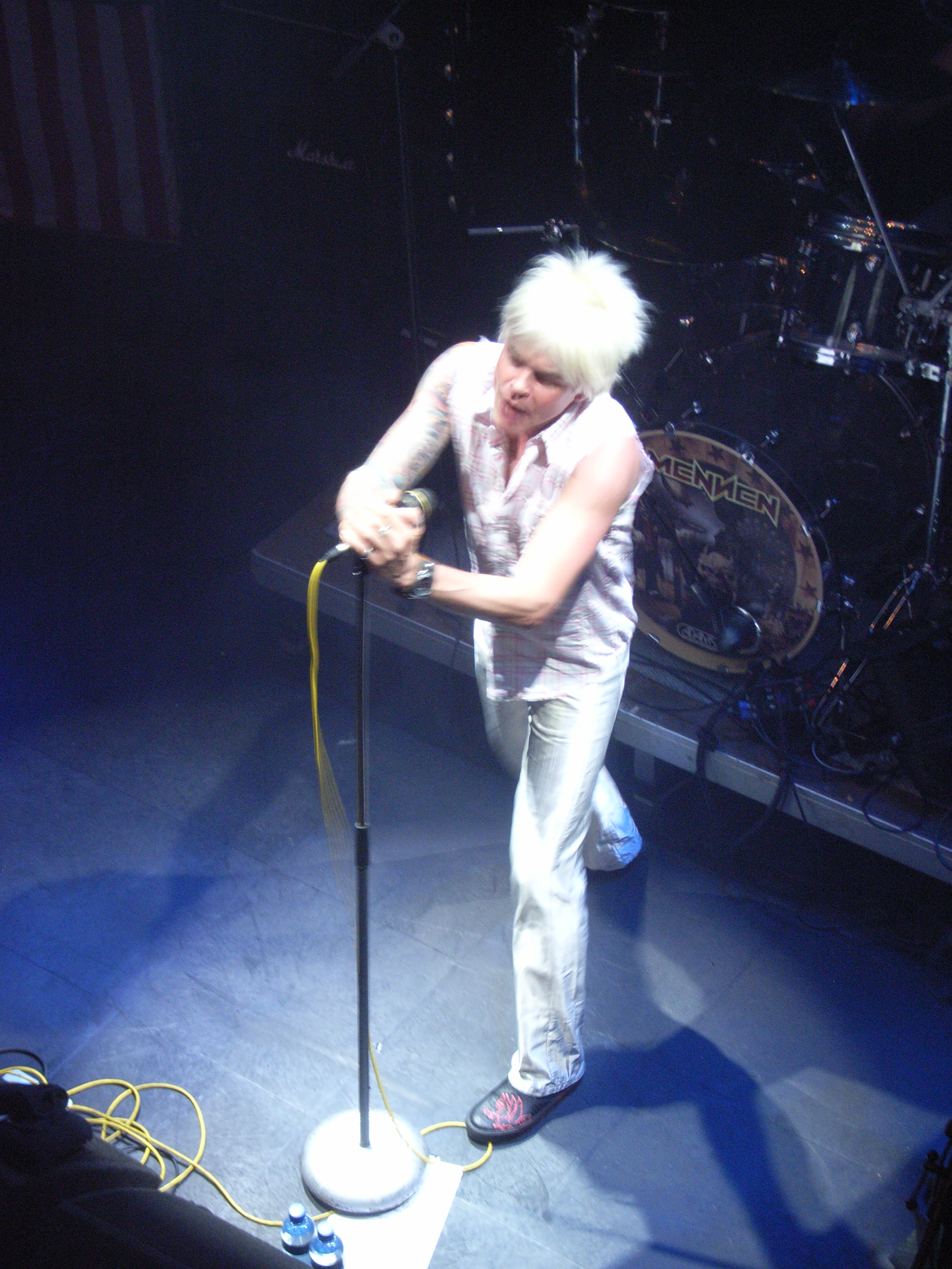 Leadsinger Joss Mennen in Heerlen